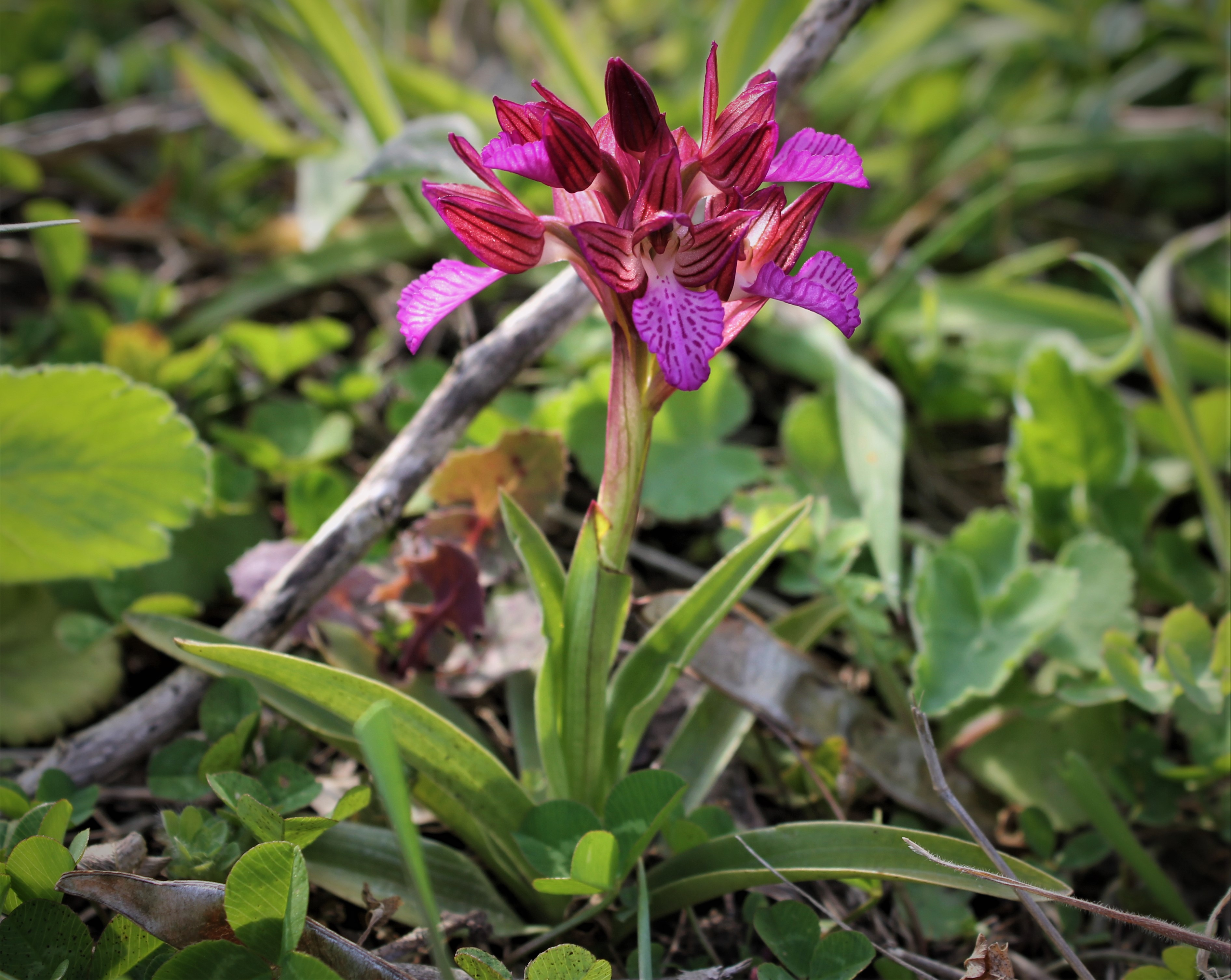 Anacamptis papilionacea scape